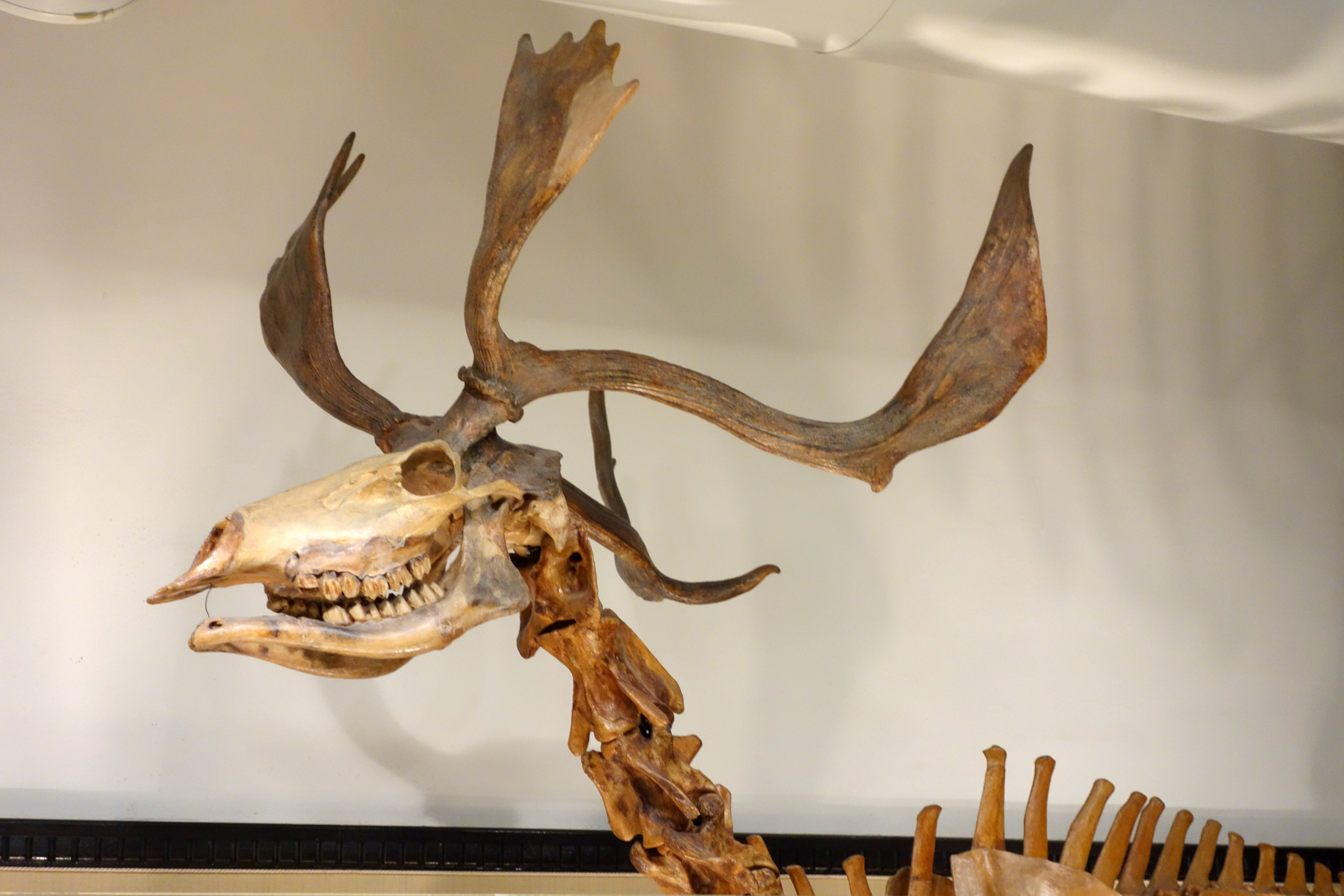 Exhibit in the National Museum of Nature and Science, Tokyo, Japan.